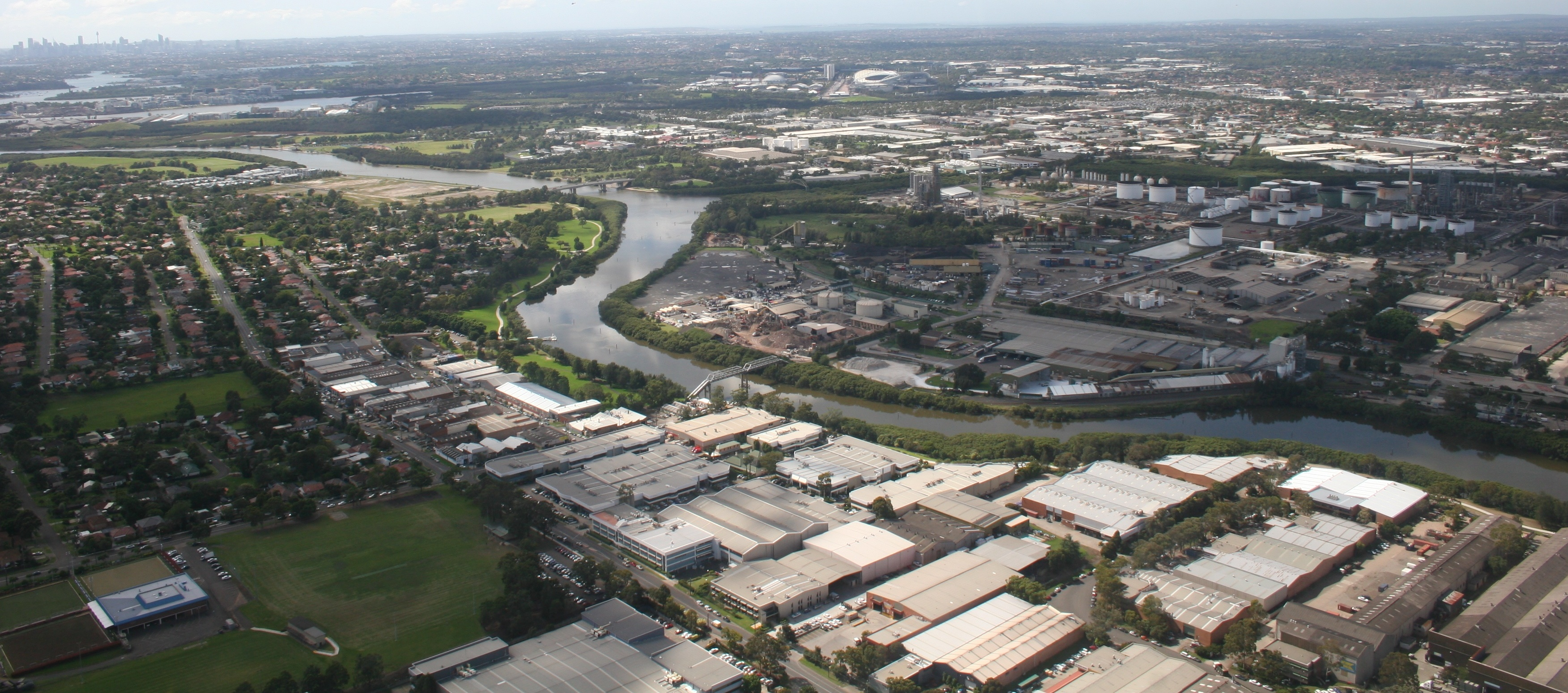 Aerial photograph of the Parramatta River at Rosehill.